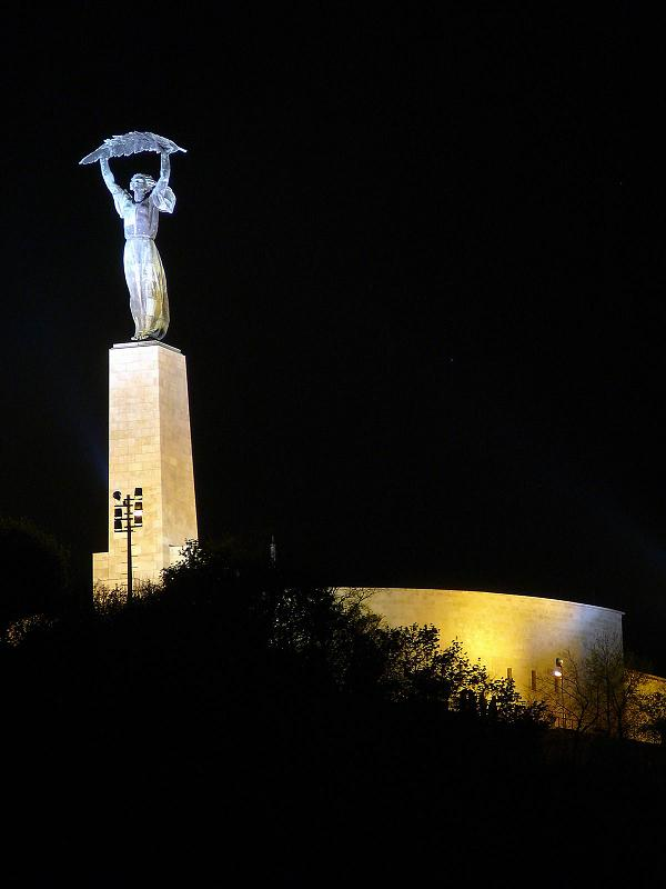 Statue of Liberty, Budapest, Hungary